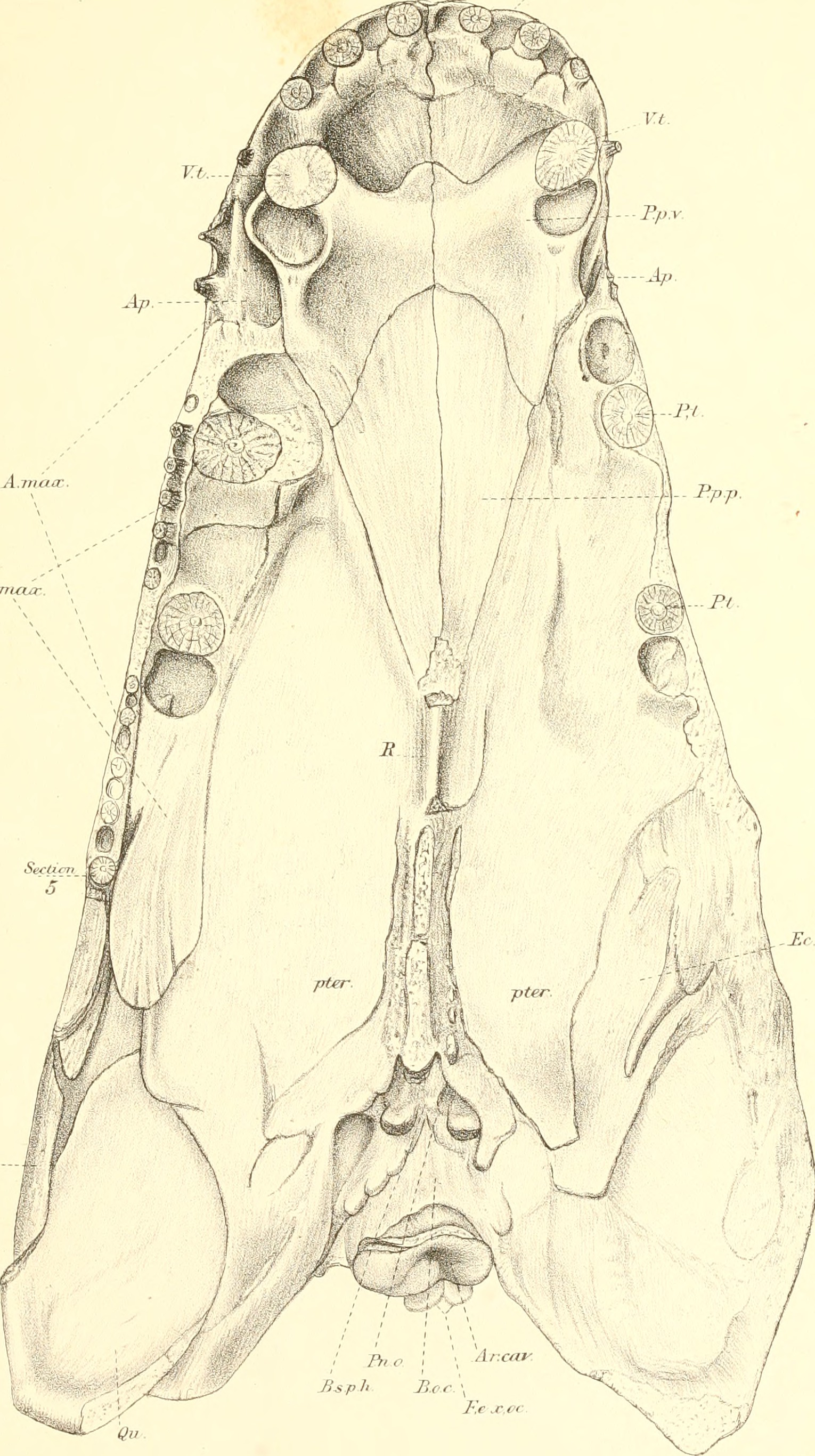 Title: The Annals and magazine of natural history; zoology, botany, and geology Year: 1840 (1840s) Authors: Subjects: Natural history; Zoology; Botany; Geology Publisher: London, Taylor and Francis, Ltd Text Appearing Before Image: Aruv & Mag. Met.Hist. S. /. Vol. U.PL. V. I'iruur. A.nuaT P.p rnaa- Ja. Text Appearing After Image: Ei -pter YvTm Dinning del R.Mmtern litti LOXOMMA ALLMANNI. HUX. Mmtern Br